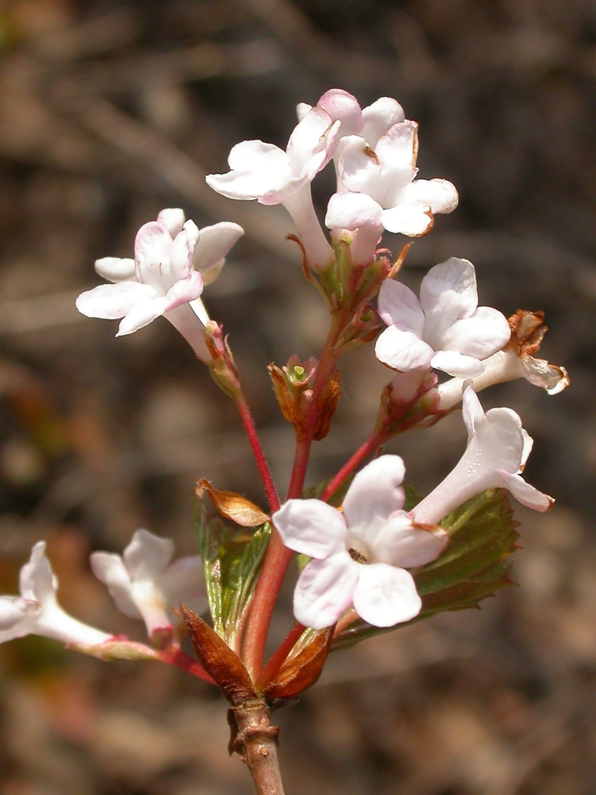 Viburnum farreri, Pruhonice Park, Czech Republic